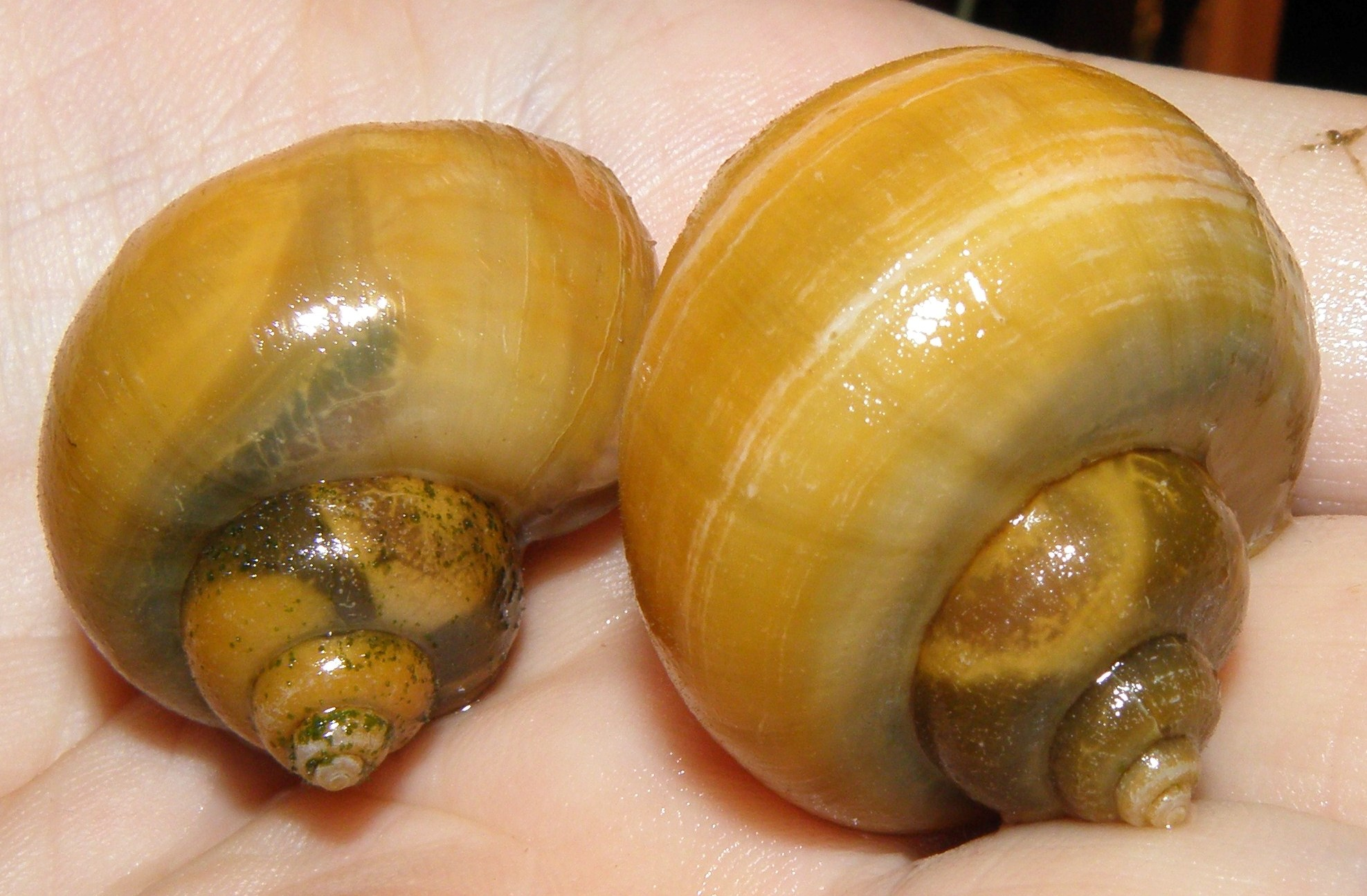 Spike-topped apple snail (Pomacea diffusa).